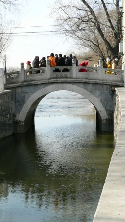 "Silvar Ingot" or "Yingding"-bridge (银锭桥) at the Shichahai lake in Beijing.